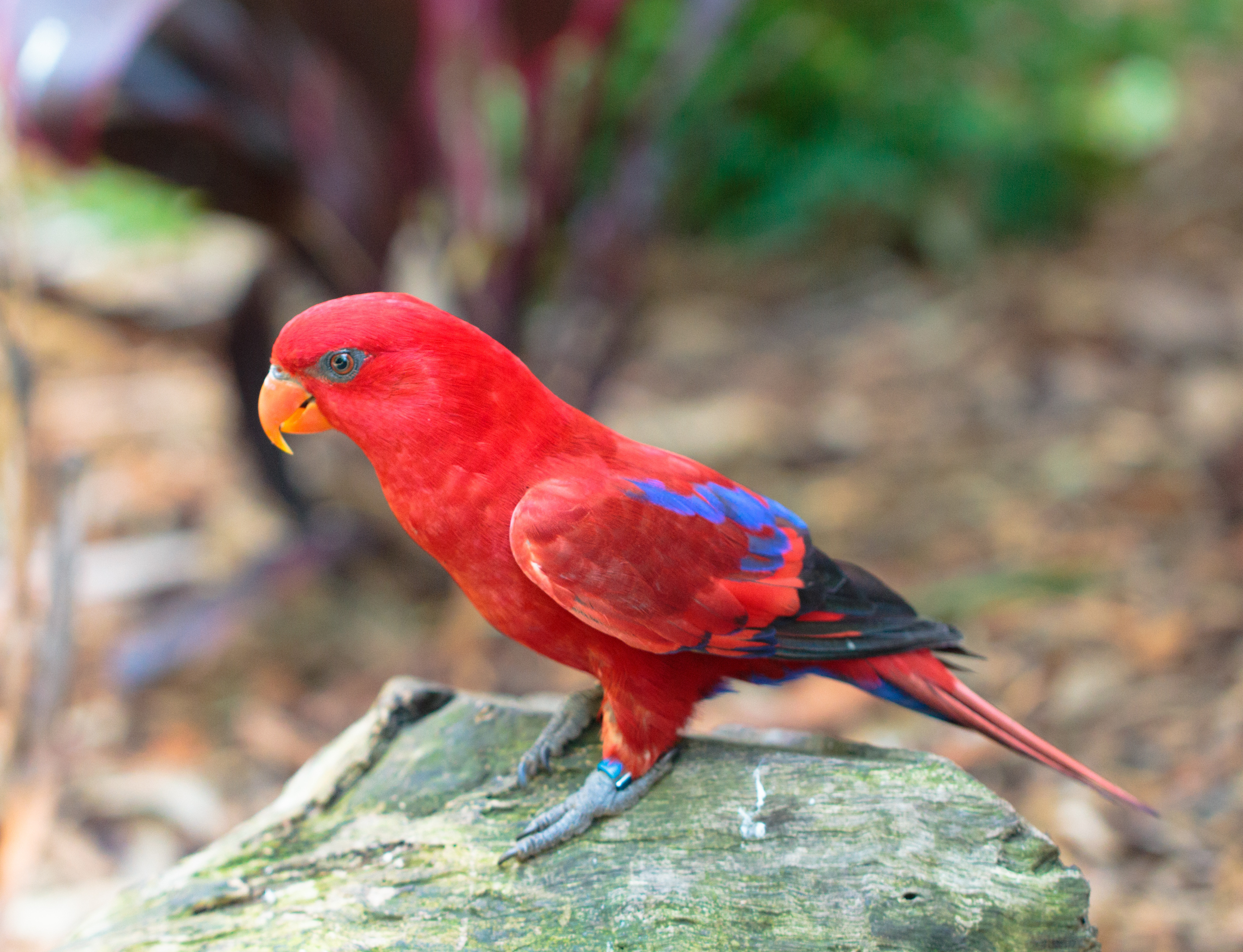 A Red Lory at Taronga Zoo, Sydney, Australia.